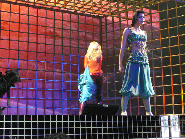 Photo taken at the concert